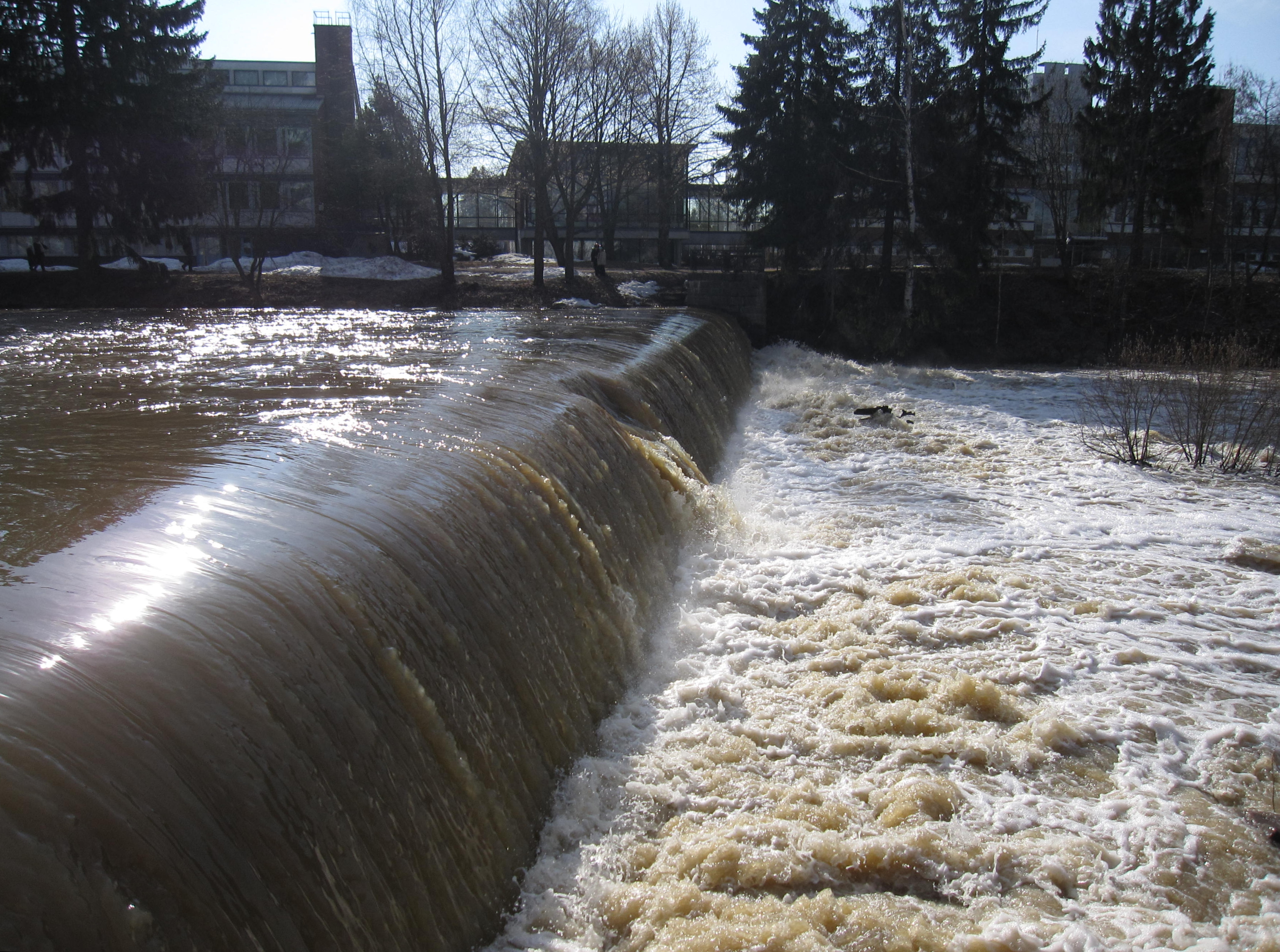 The waterfall in Tikkurilankoski (Vantaa, Finland) during spring flood.